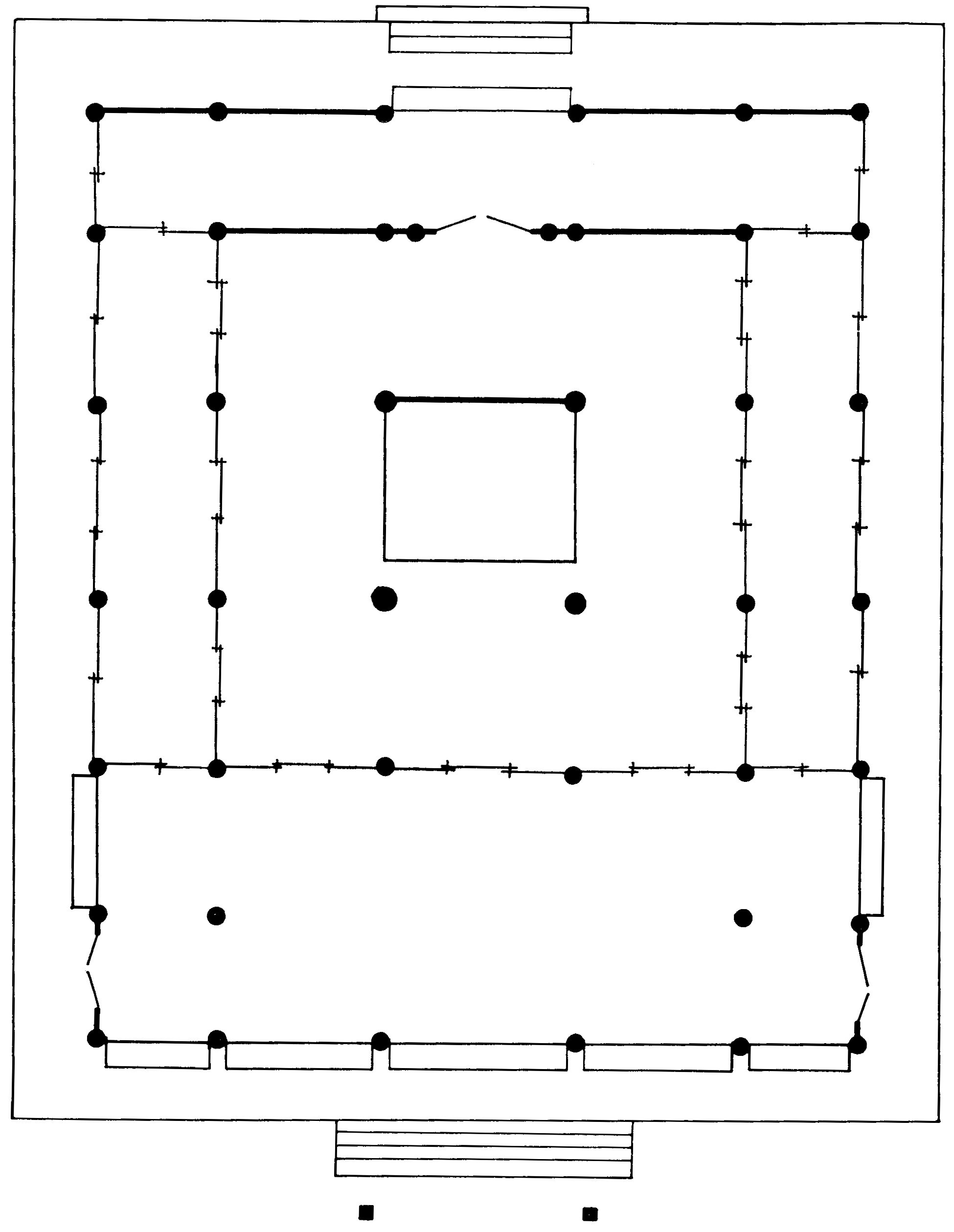 Layout of Daihôon-ji temple at Kyoto, main building